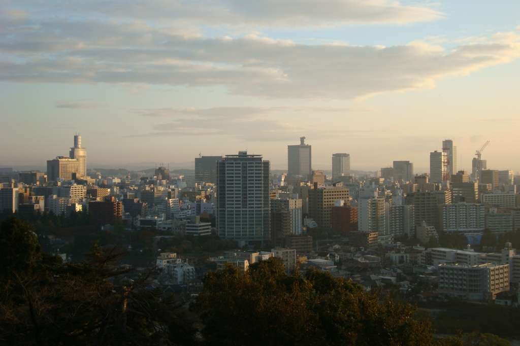 Downtown buildings of Sendai, Japan, at dawn. This view is obtained from the abandoned castle of the city.